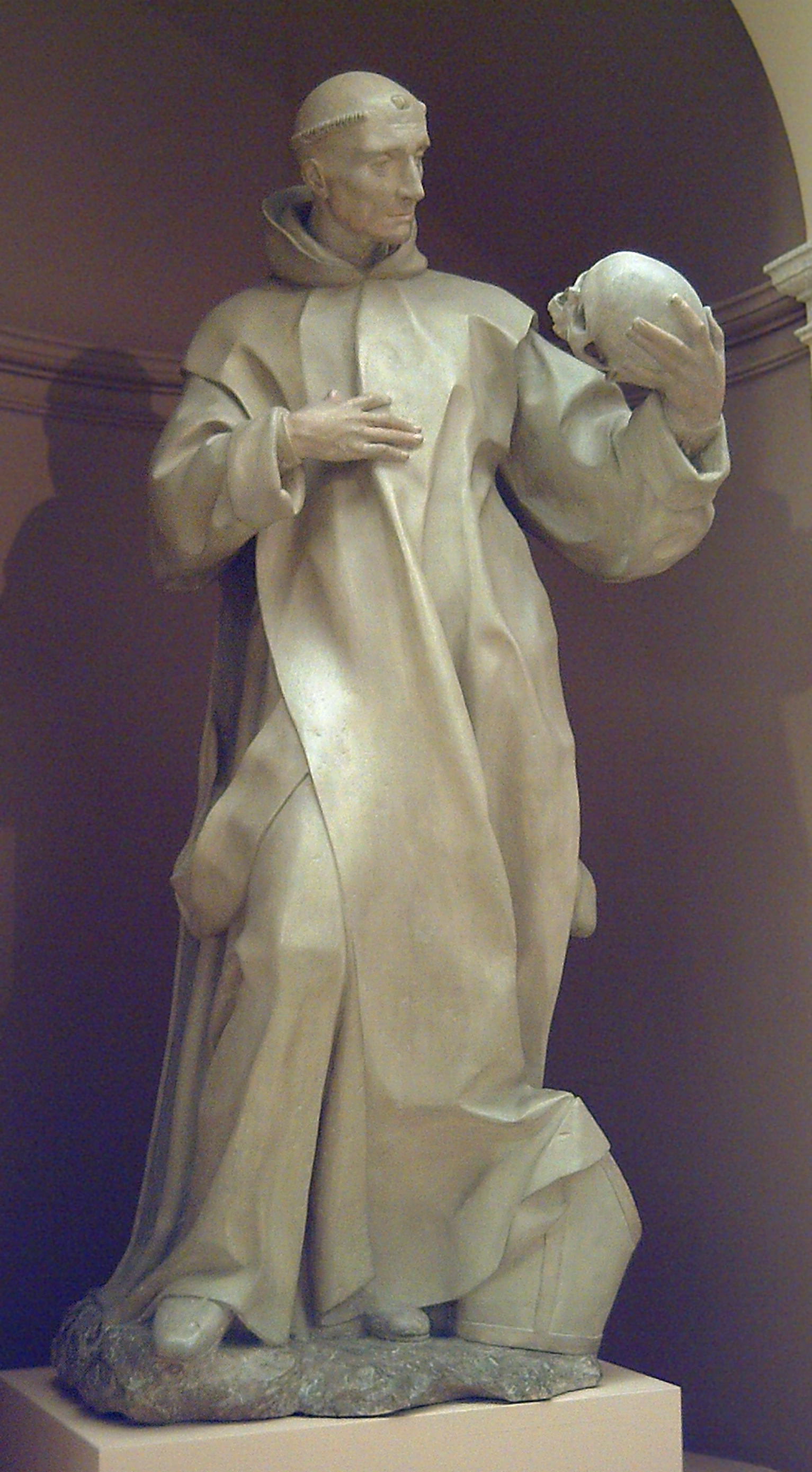 Depicted person: Saint Bruno (h.1030–1101)